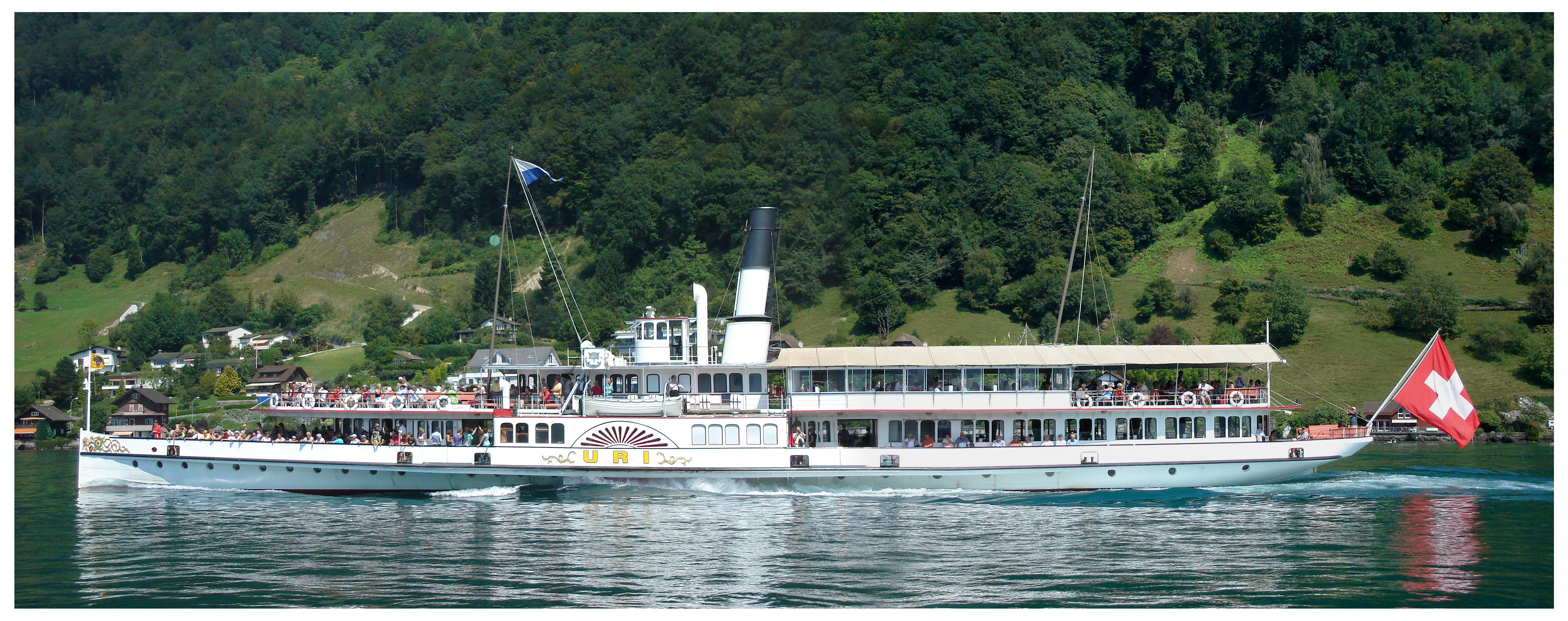 Steamboat URI / Lake of Lucerne / Suisse // approaching Vitznau Station